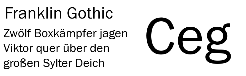 german pangram in typeface Franklin Gothic